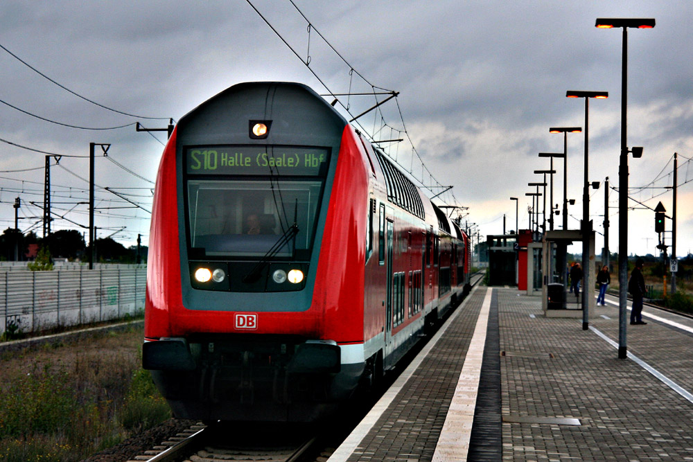 A line 10 suburban train of the Leipzig S-Bahn Systems stops at Gröbers, headed for Halle.